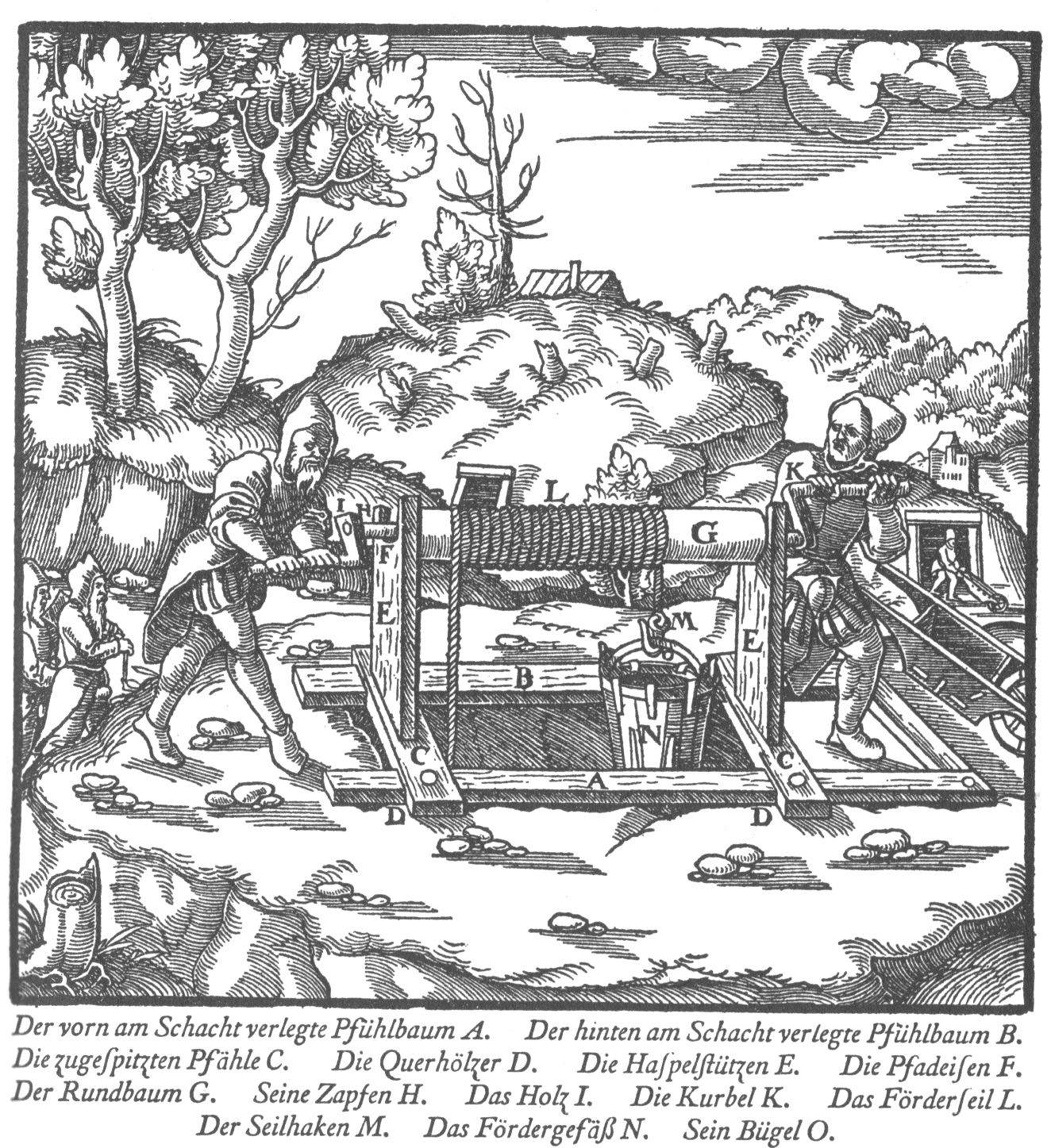 Illustration of a mining pit.